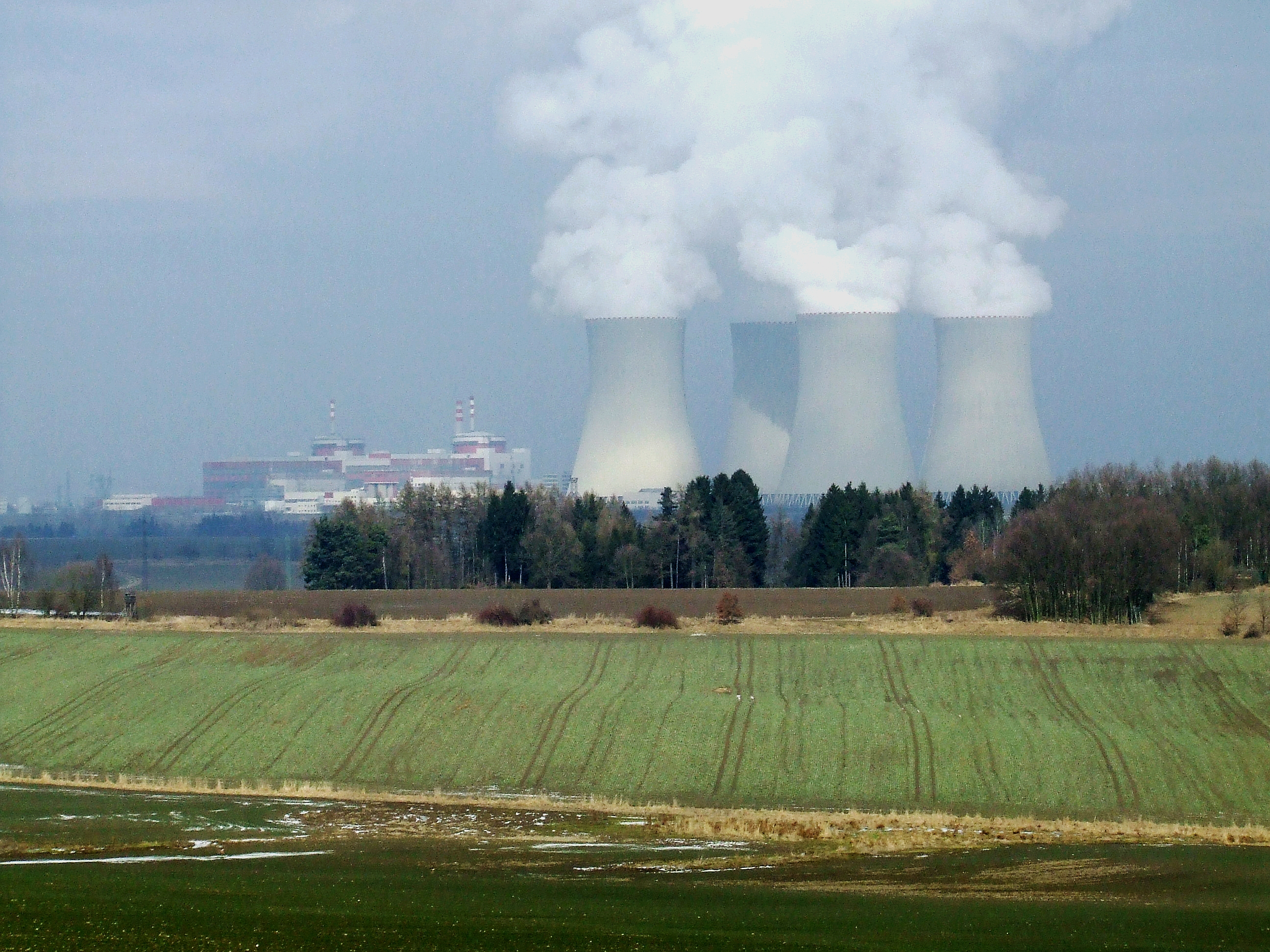 Panorama of the Temelín power plant